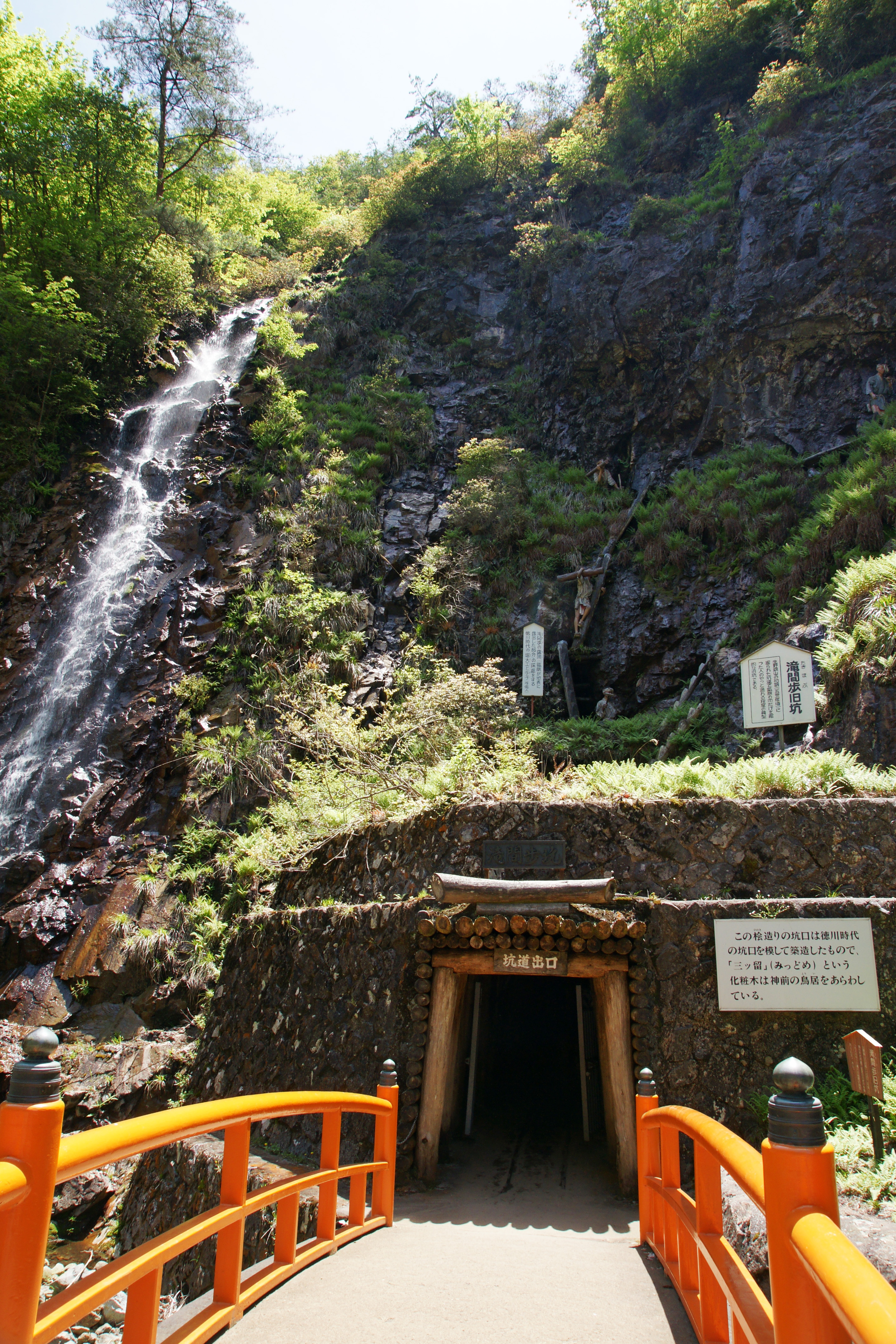 Ikuno Ginzan Silver Mine in Ikuno, Asago, Hyogo prefecture, Japan.